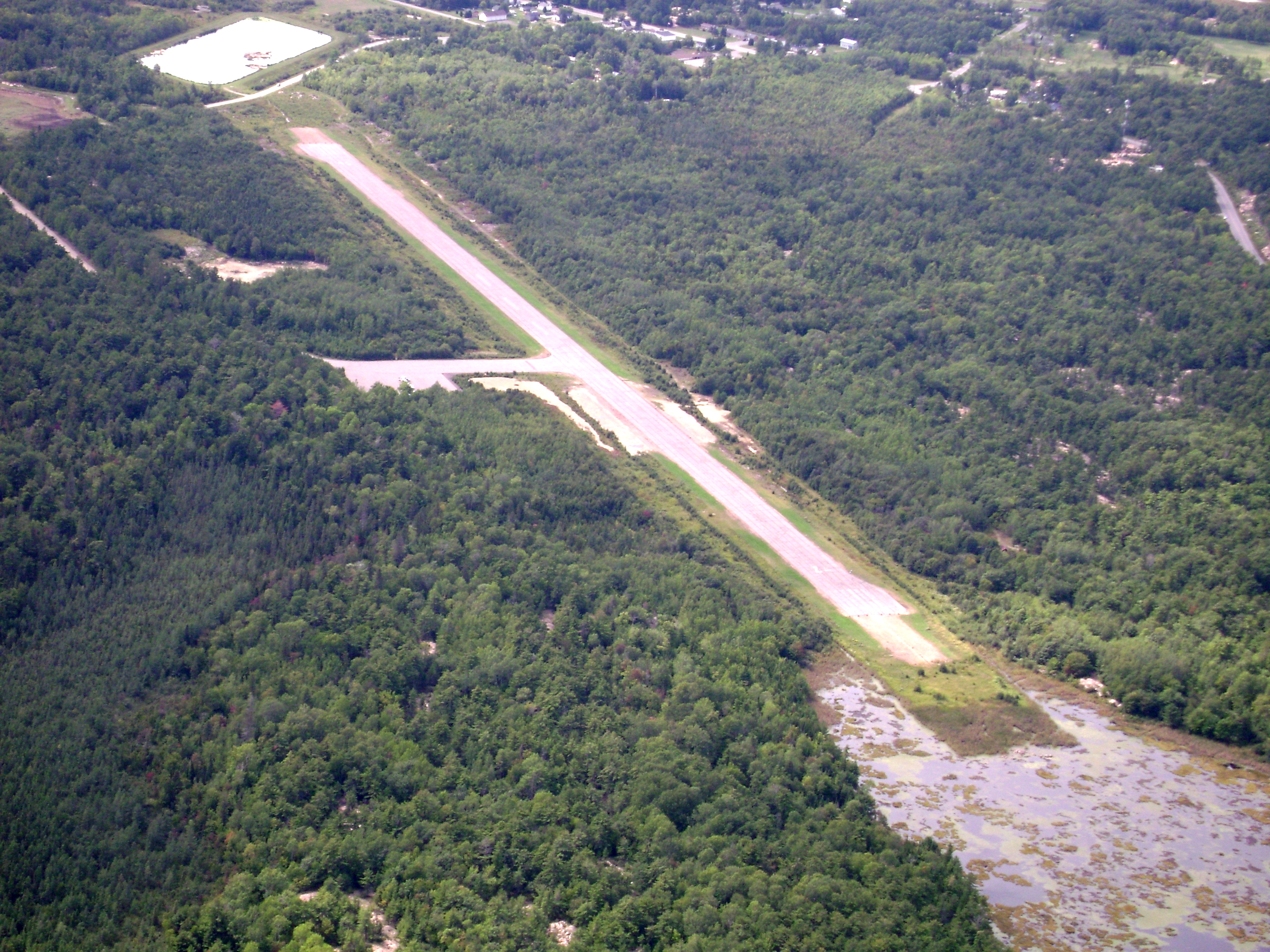 Killarney Airport, from the north